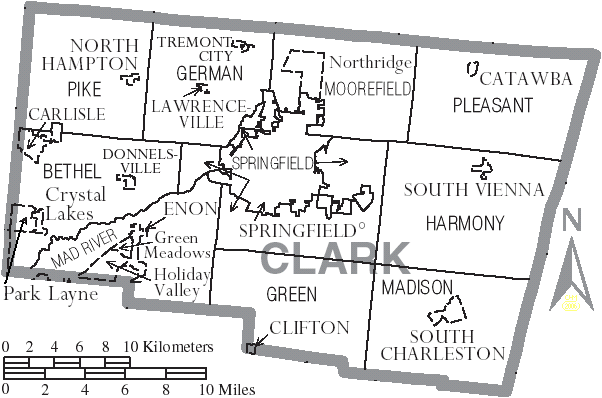 Map of Clark County, Ohio, United States with township and municipal boundaries